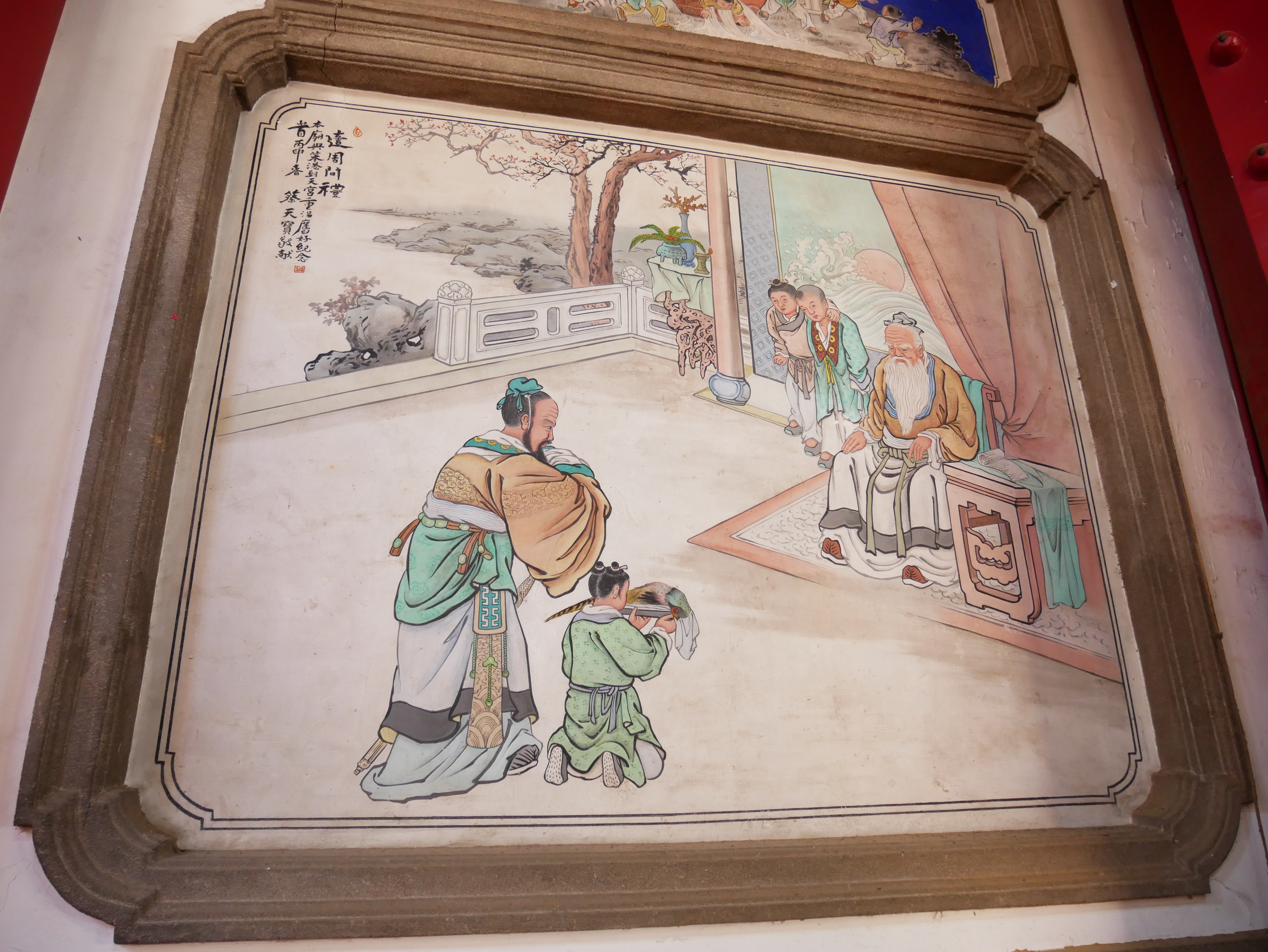 大天后宮三川殿陳玉峰所繪「適周問禮」壁畫（1956年），臺南市中西區赤崁里